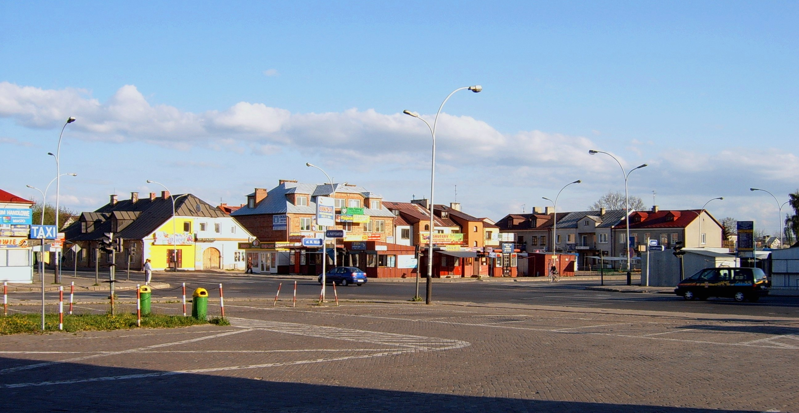 New Market Sq. in Nowe Miasto (New Town) quarter of Zamość (Poland)